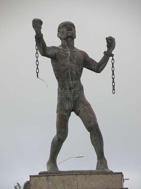 Photo of Emancipation Statue